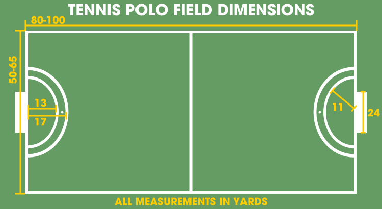 A diagram of a field in the sport of tennis polo.